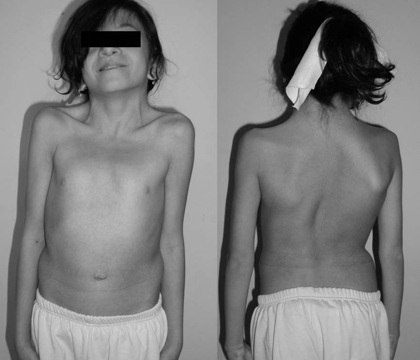 A 12-year-old female with Noonan syndrome. Typical webbed neck. Double structural curve with rib deformity.